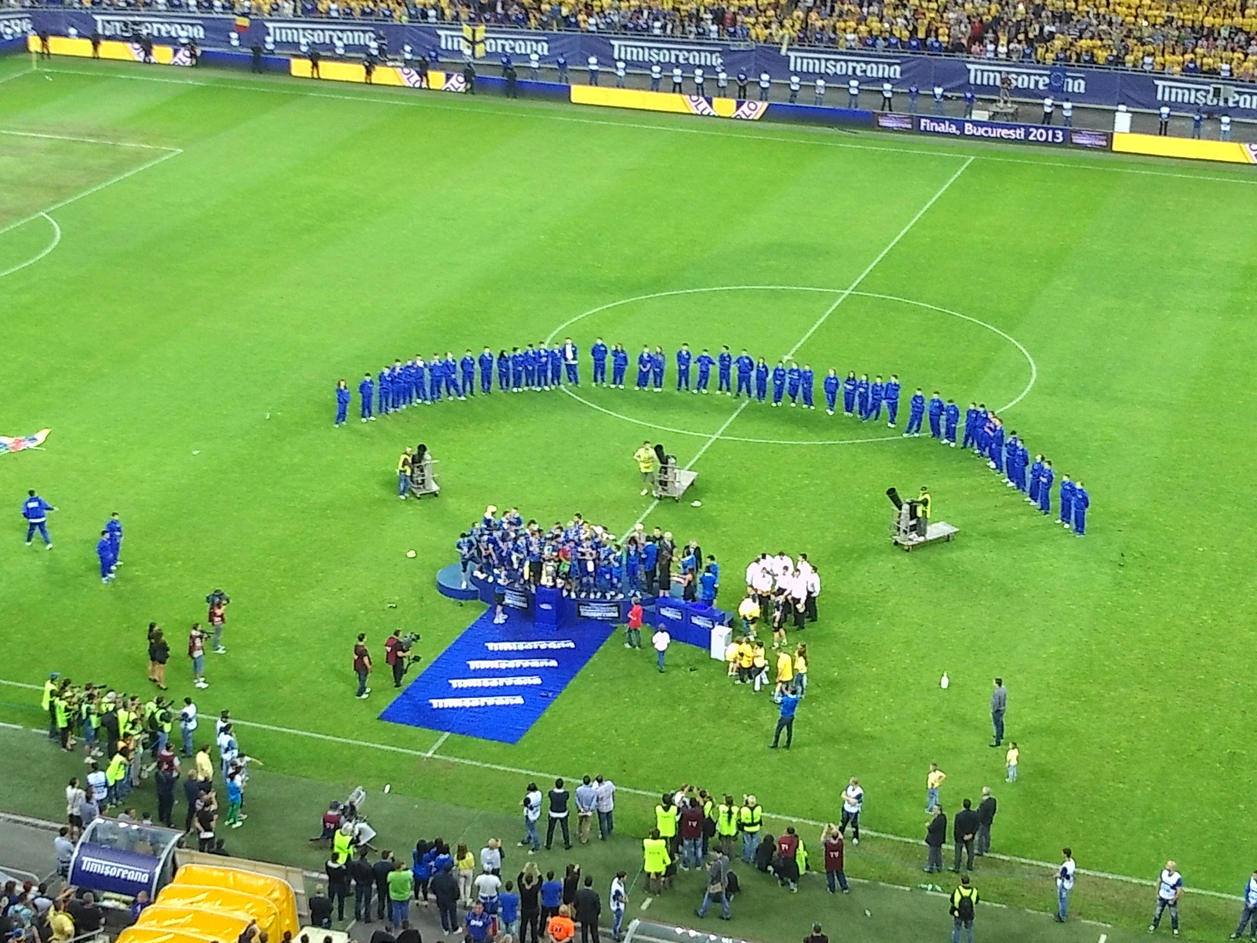 FC Petrolul Ploiești being awarded the association football Cup of Romania 2013 after defeating CFR Cluj 1-0